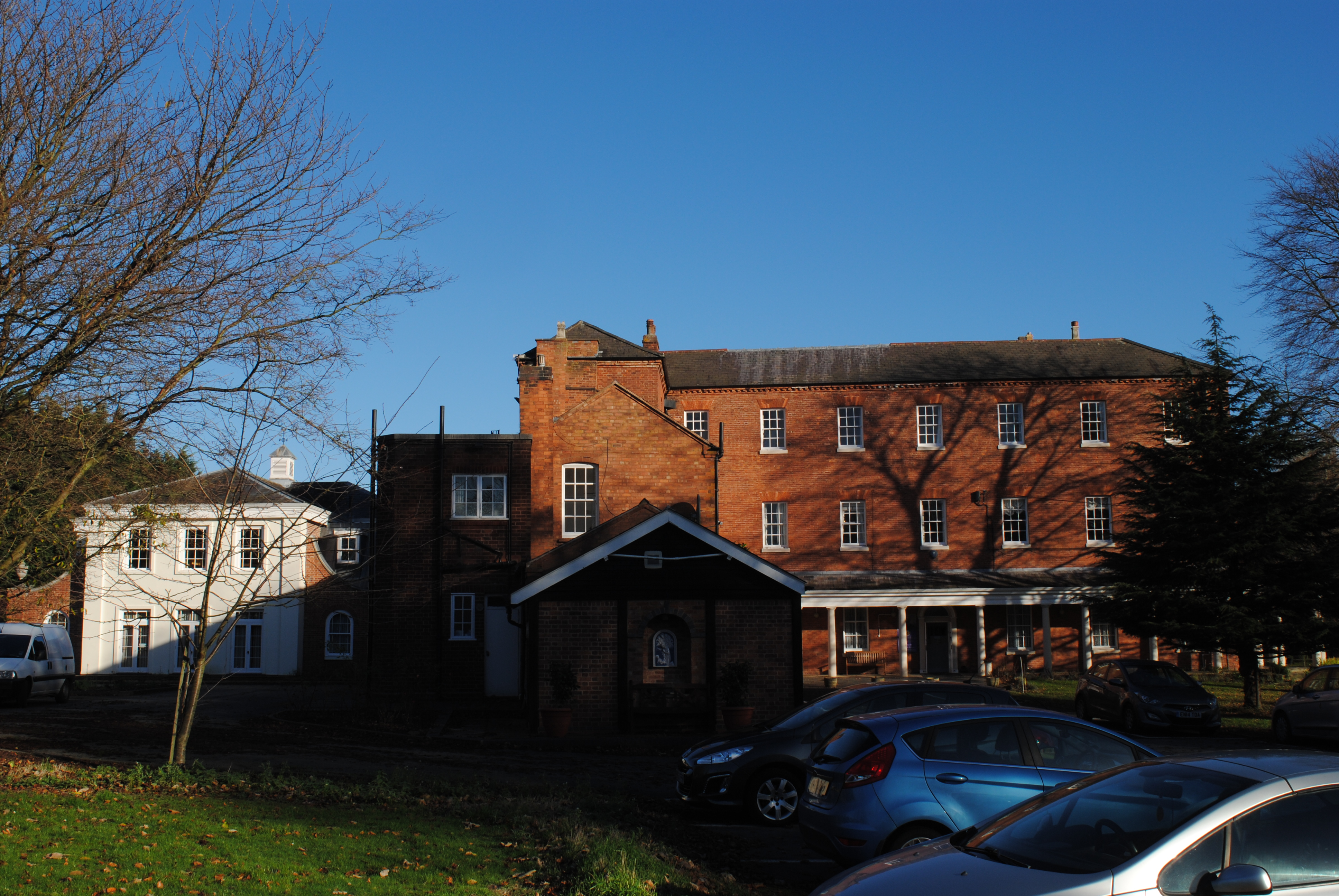 Maryvale House, home of the Maryvale Institute (and formerly of St Mary's College Old Oscott, Birmingham, England.